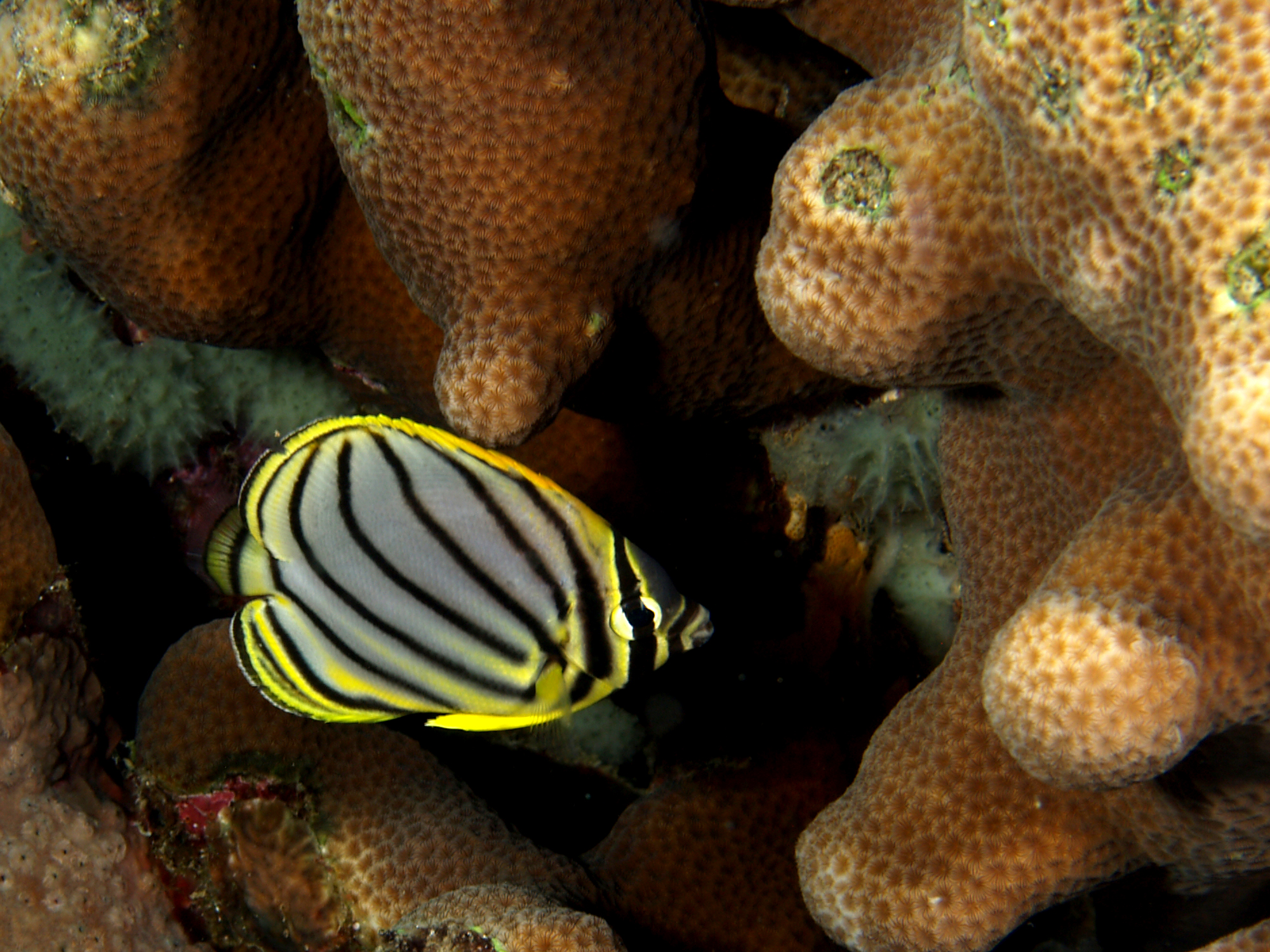 Chaetodon meyeri (Meyer's butterflyfish) juvenile